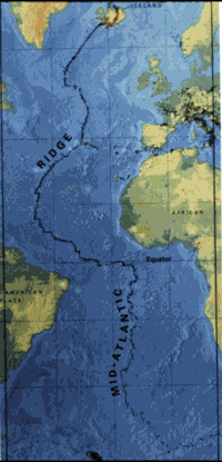 small image showing the location of the Mid-Atlantic ridge